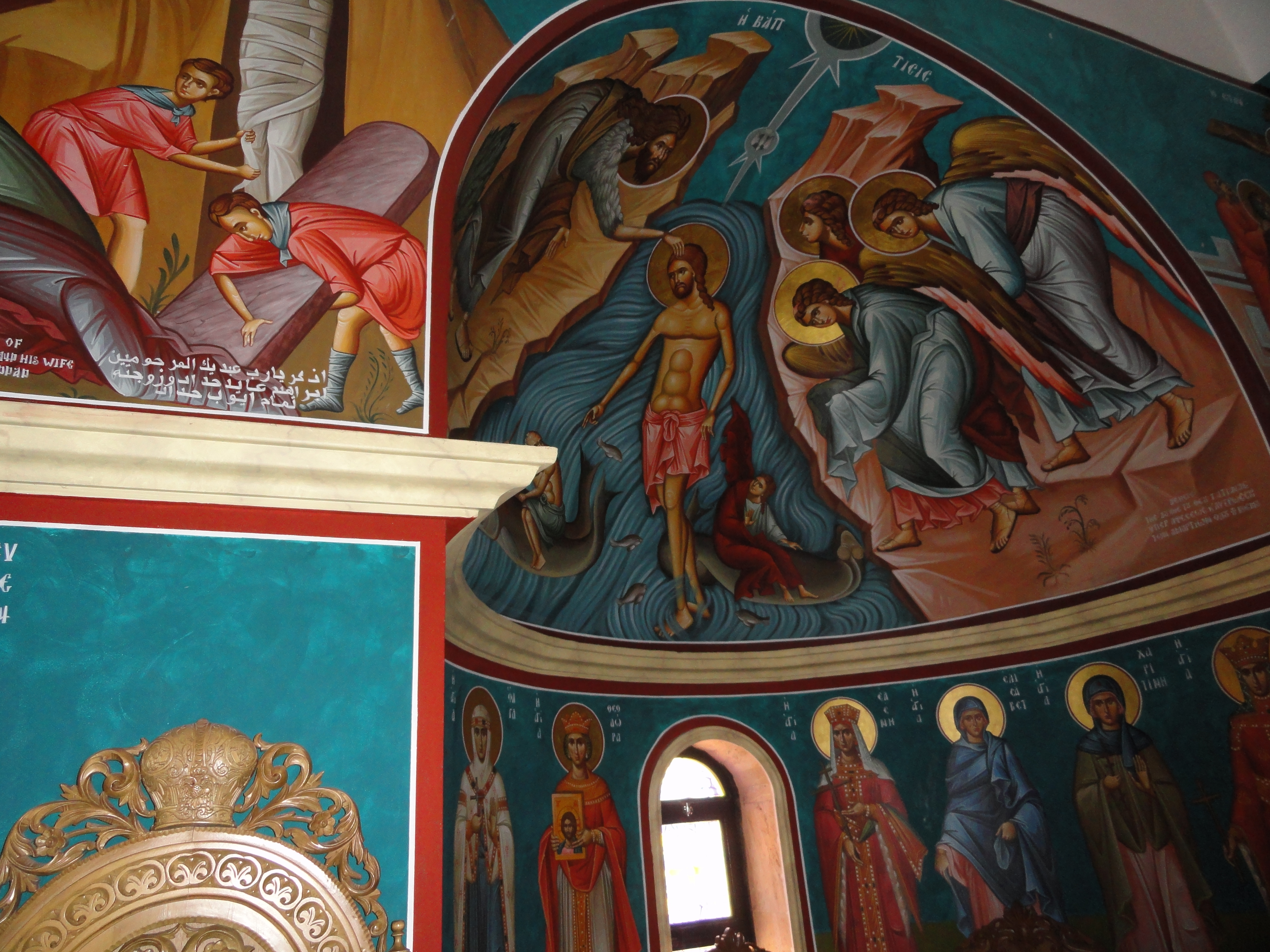 A church at the Baptism Site of Jesus Christ, Jordan River, Jordan